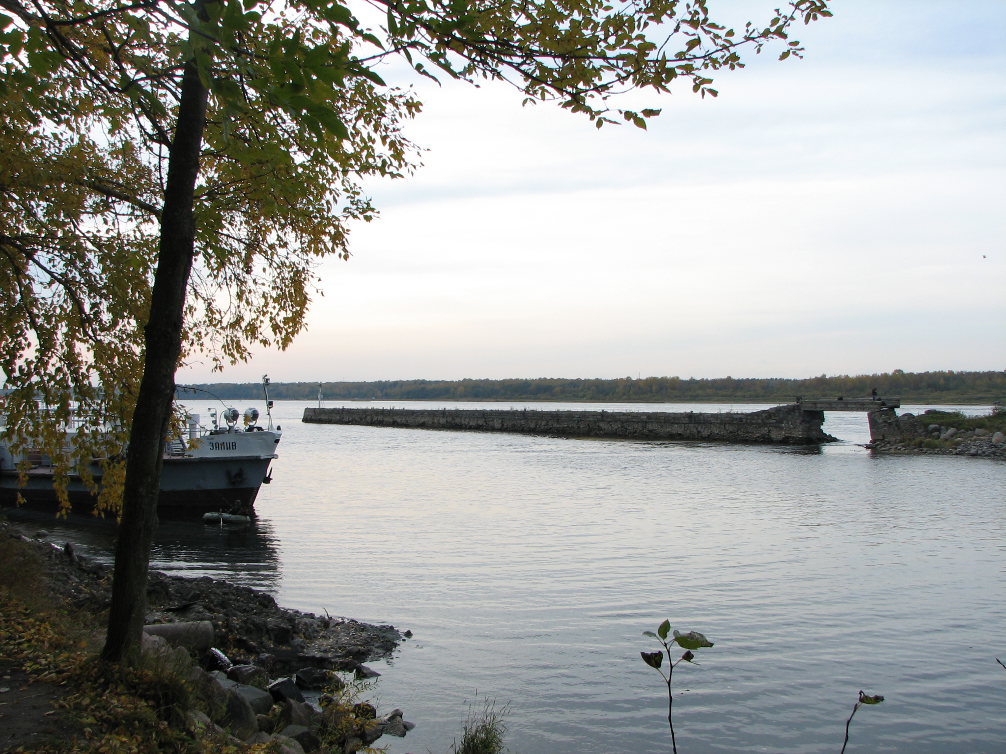 Mouth of New Ladoga Canal in Shlisselburg, 2008